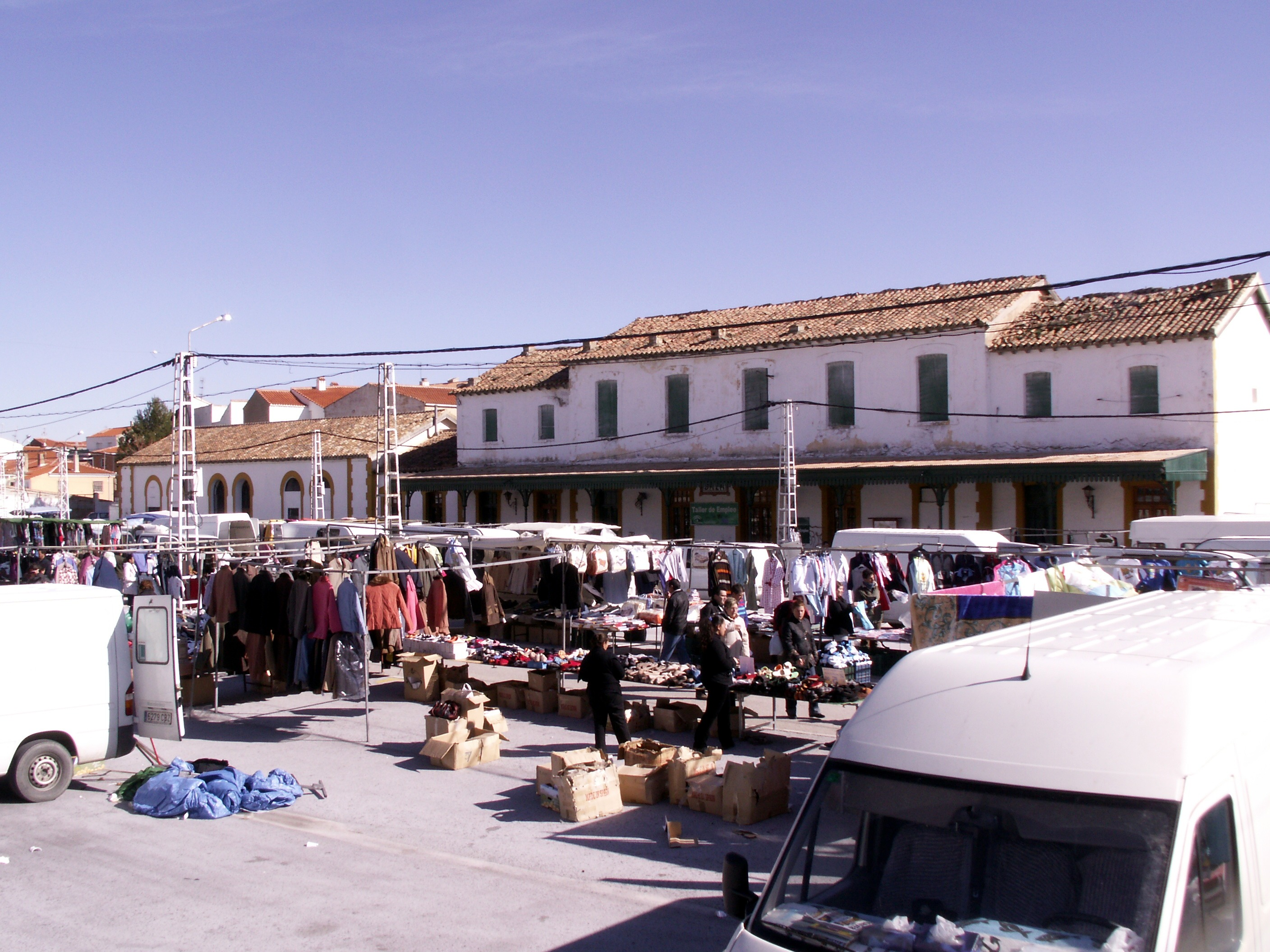 Baza, Spain